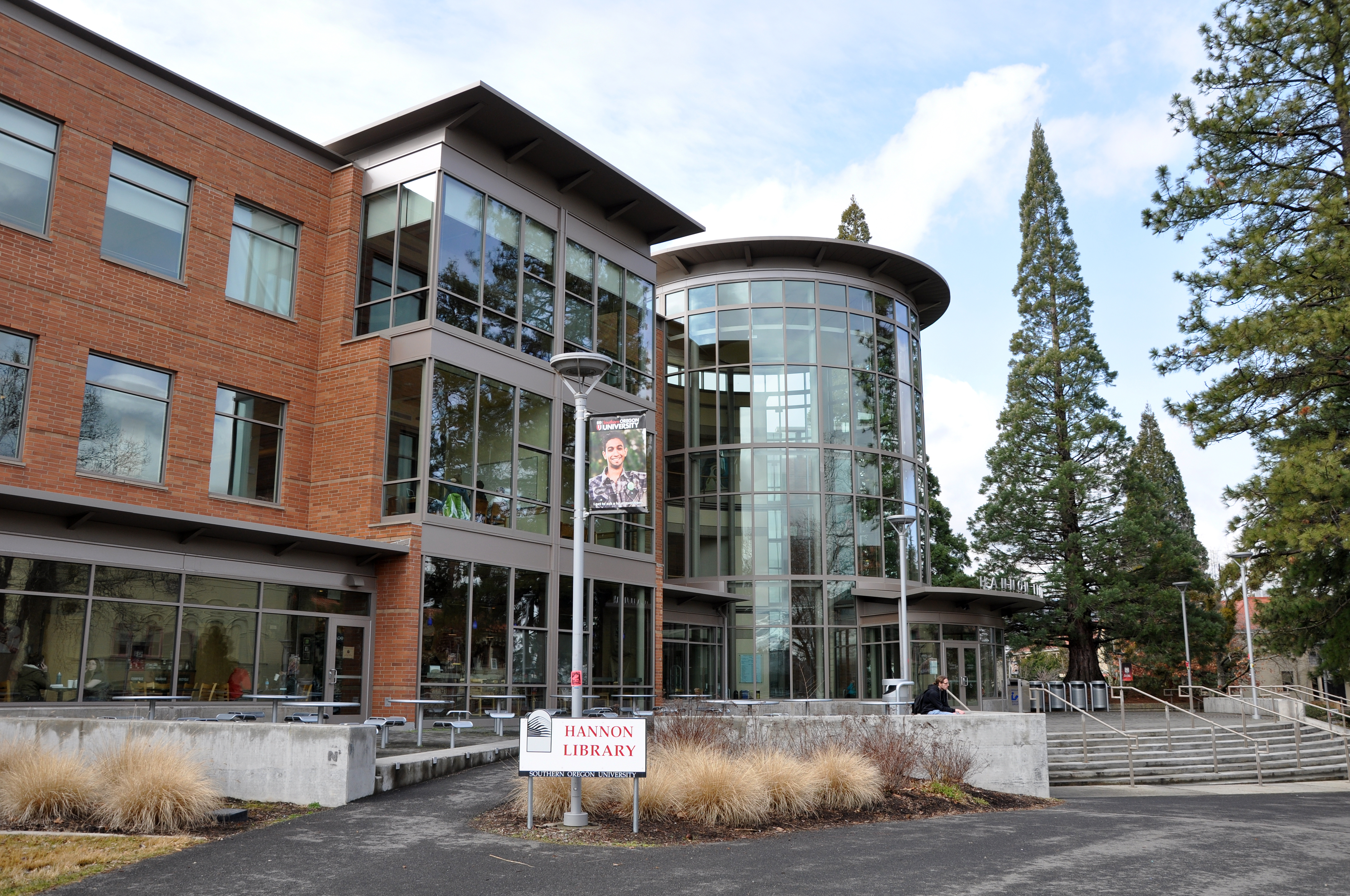 Hannon Library on the Southern Oregon University campus in Ashland, in the U.S. state of Oregon